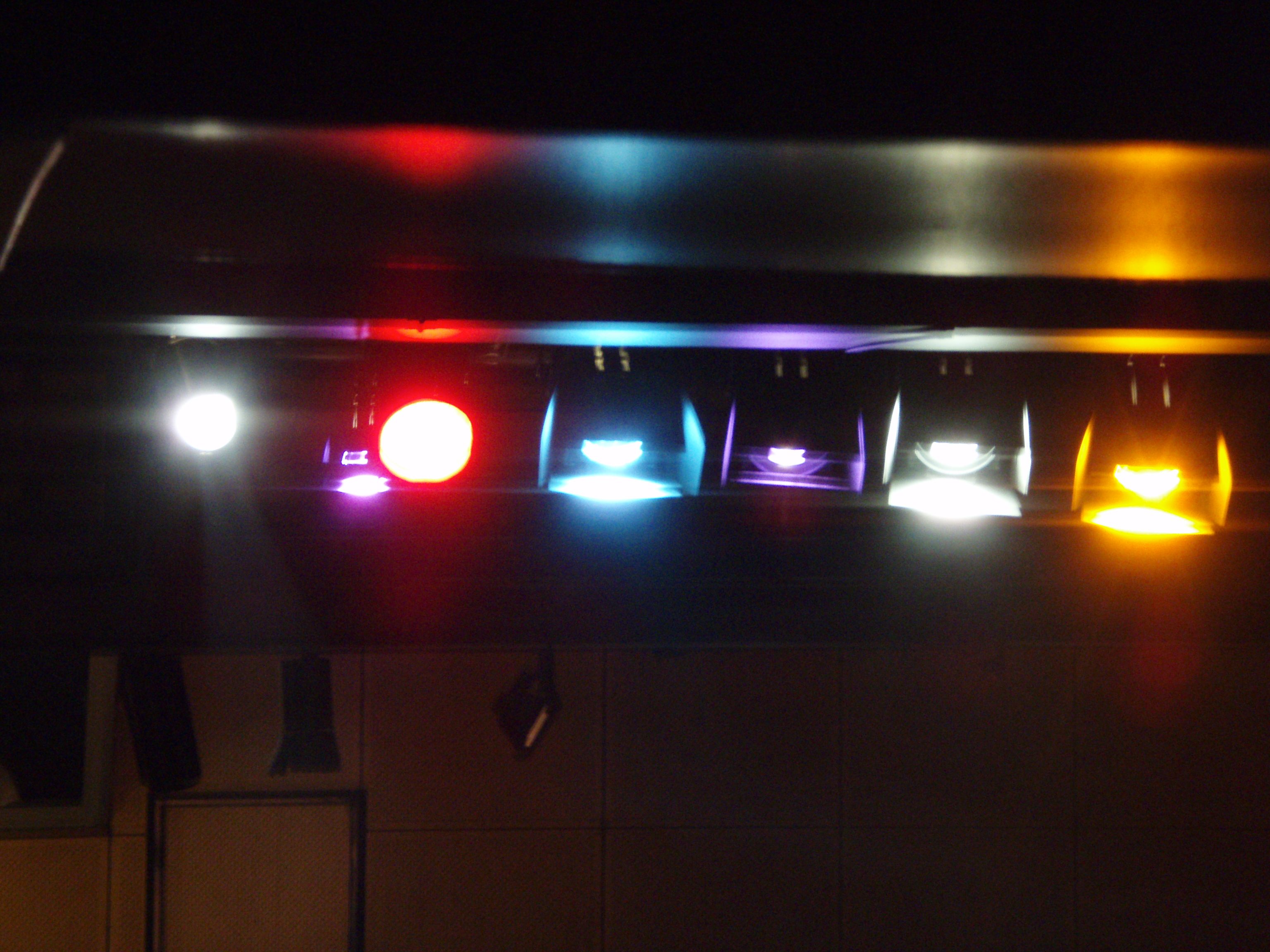 A Strip of Par Cans with different coloured gels